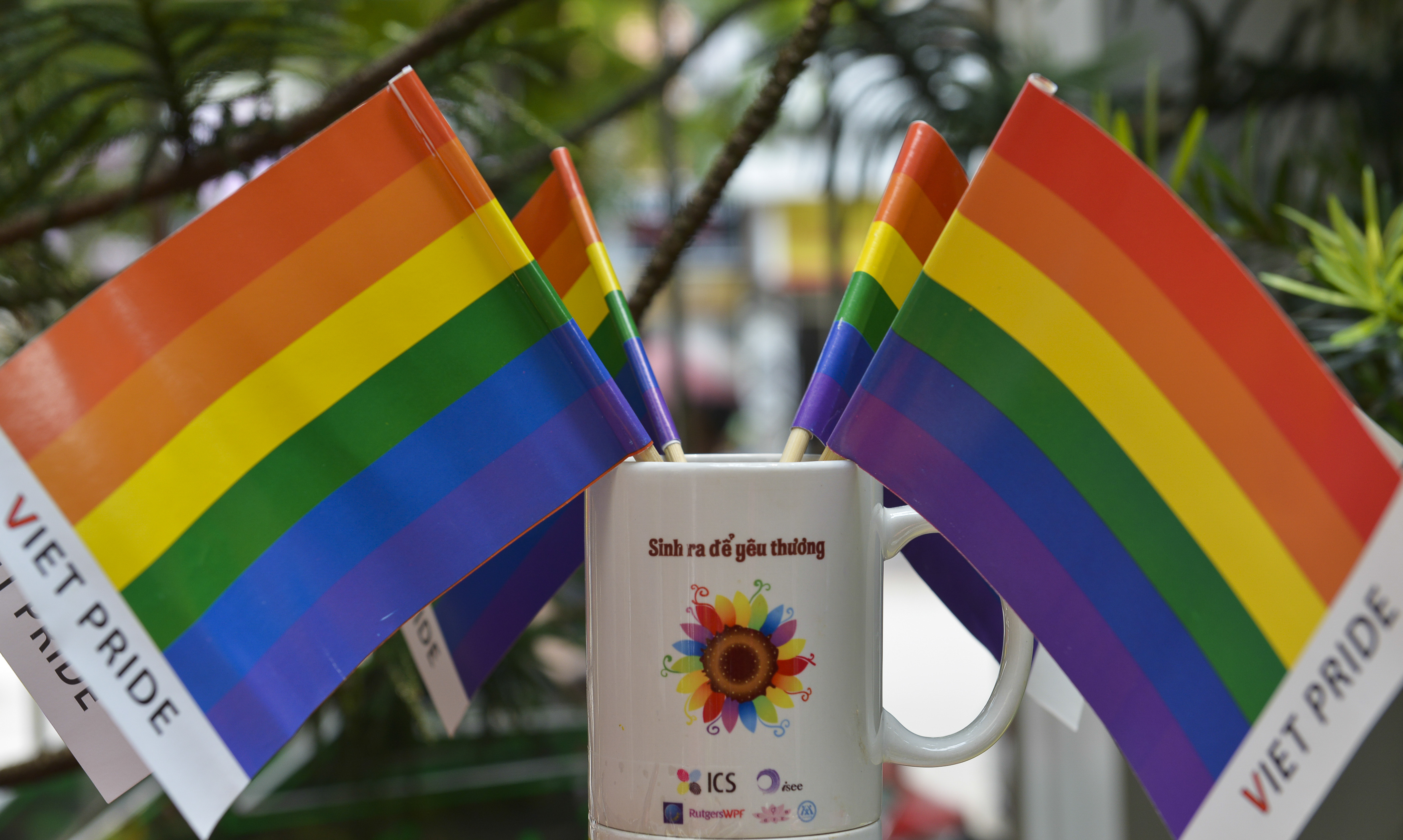 Hanoi, August 2, 2014. Photo: USAID/Vietnam.